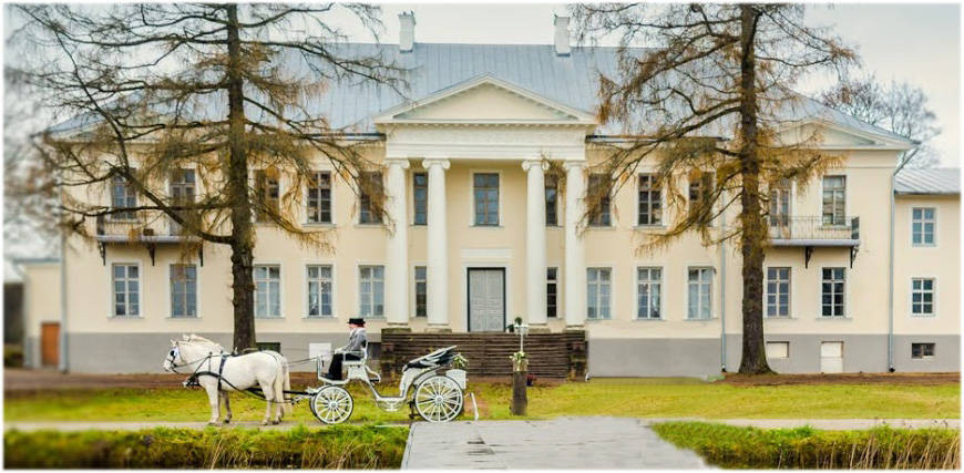 Kernu mõisa peahoone